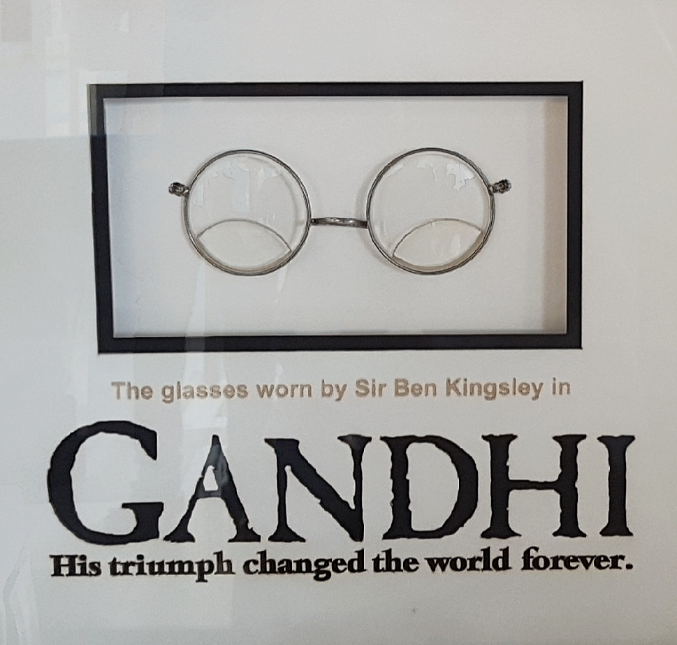 The glasses worn by Sir Ben Kingsley in the movie Gandhi in City Palace Museum in Udaipur.